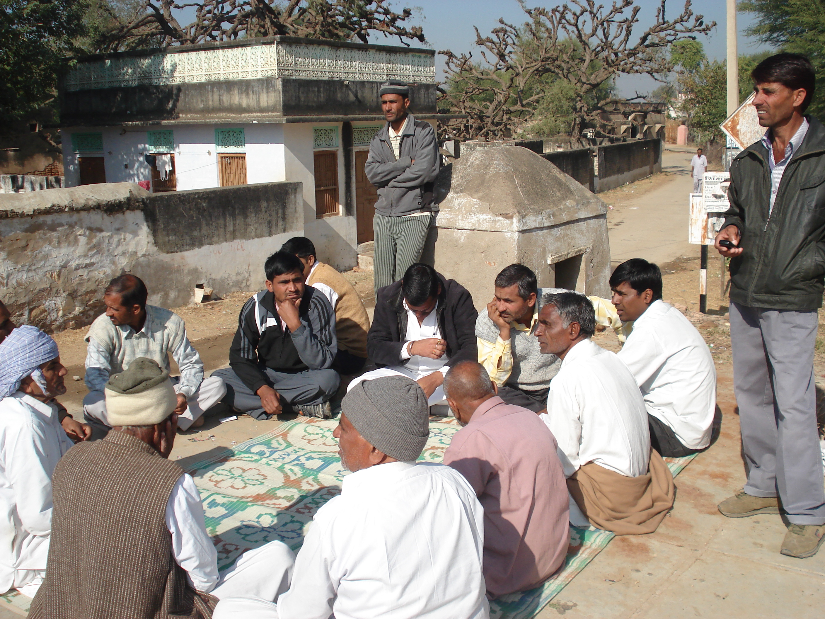 This is the image of Birodi Chhoti Chaupal